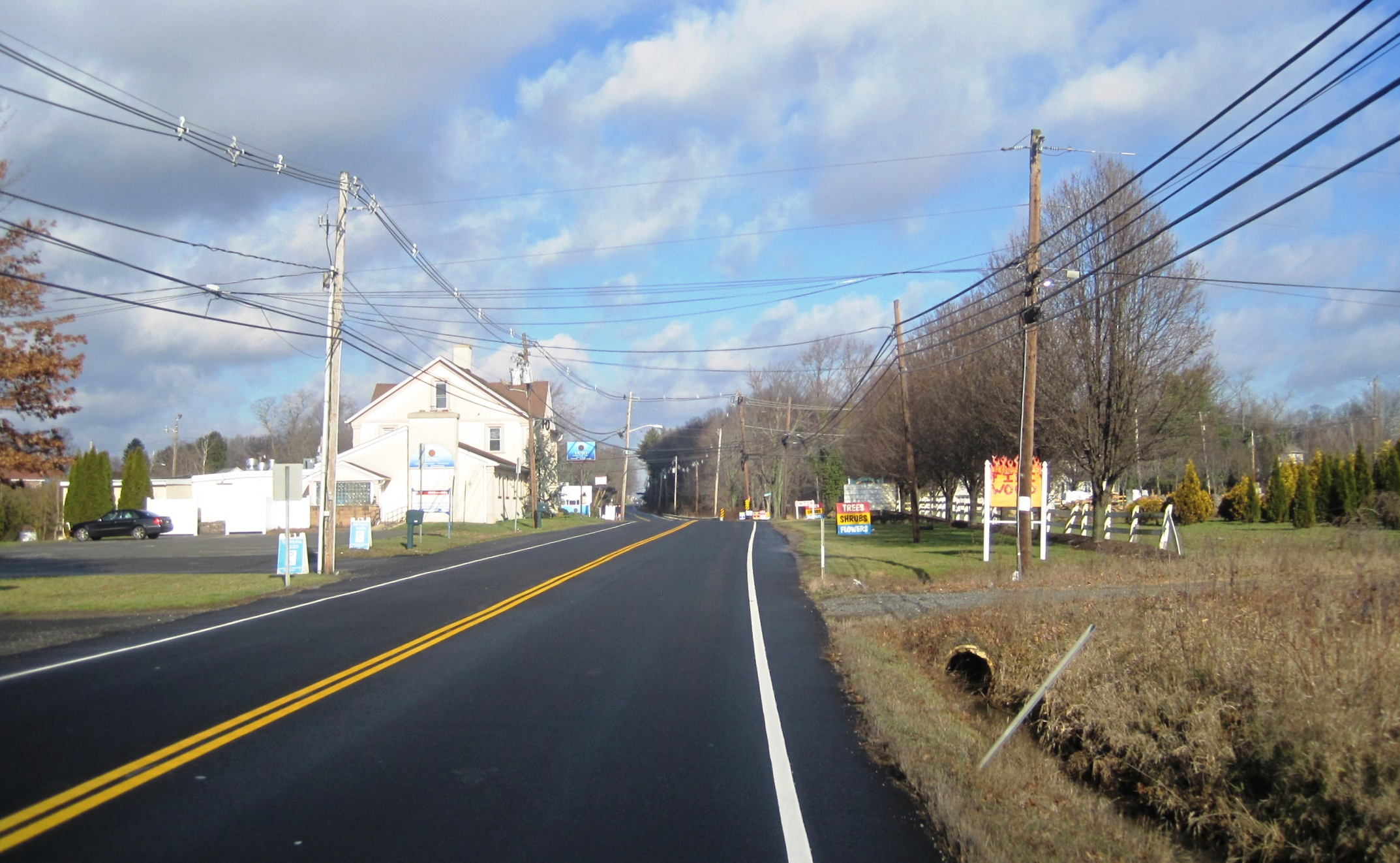 Photo of Applegarth, New Jersey, an unincorporated community within Monroe Township, Middlesex County. Photo taken along northbound Applegarth Road (County Route 619) approaching the intersection of Wycoffs Mills-Applegarth Road.